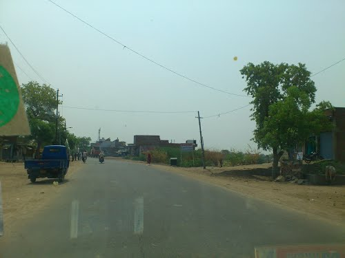 GURSARAI